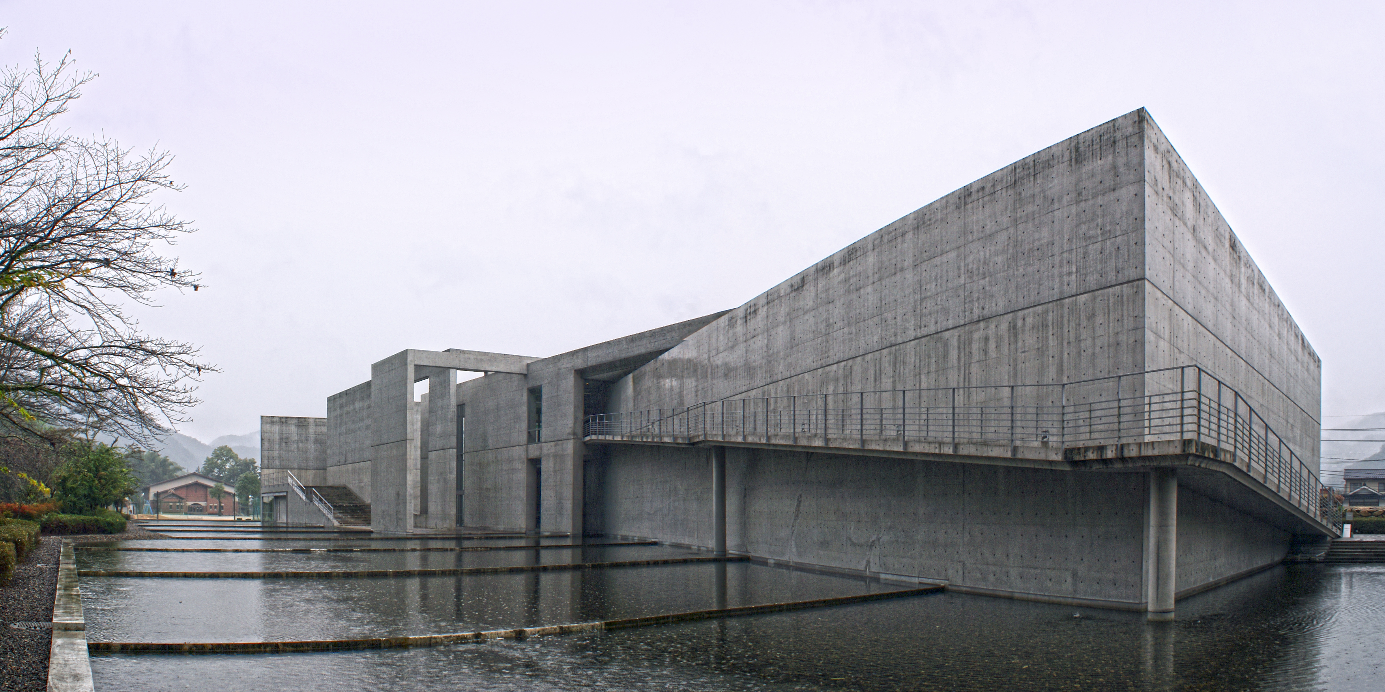 Nariwa-cho Art Museum, Takahashi, Okayama prefecture, Japan